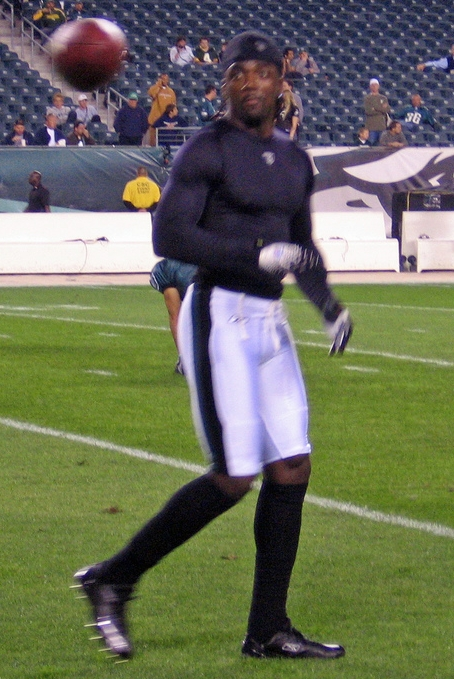 Photo by DK Donte Stallworth #18